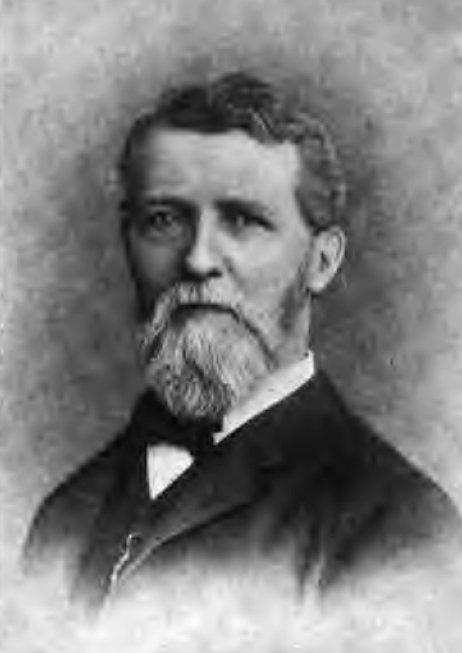 Photograph of John Rogers, sculptor (1829-1904) creator of figurines